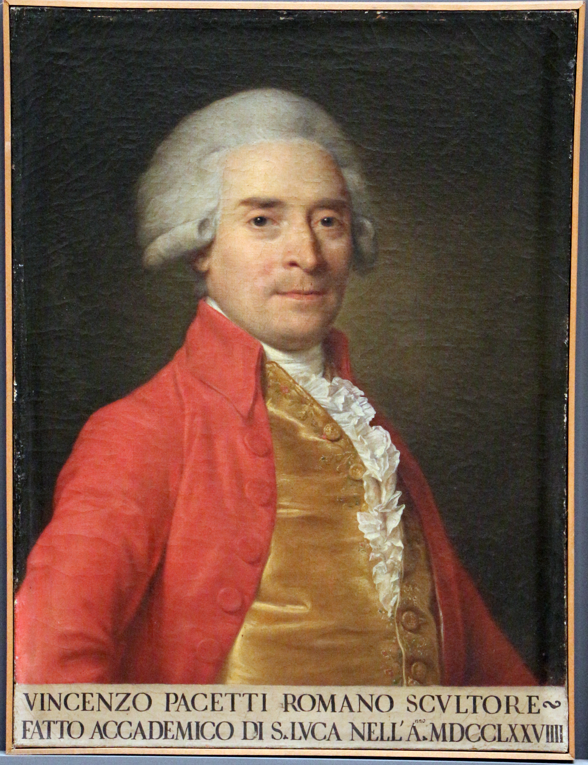 Accademia di San Luca - Gallery